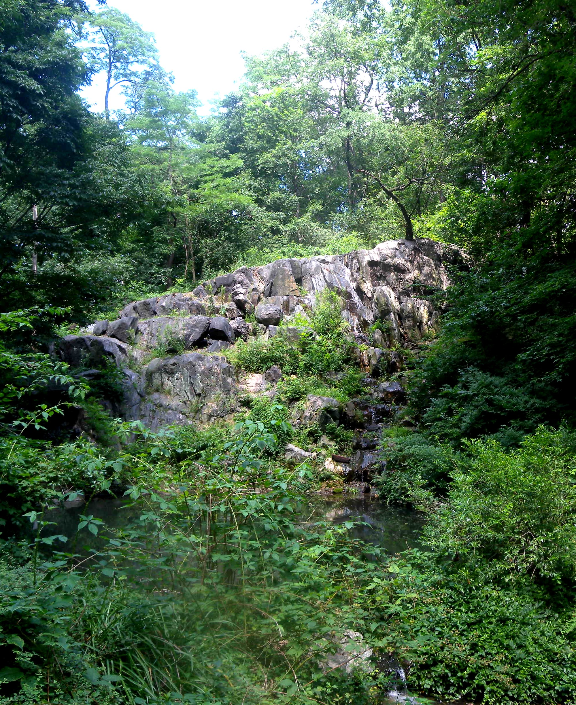 Looking north at artificial cascade feeding The Pond from the west end.